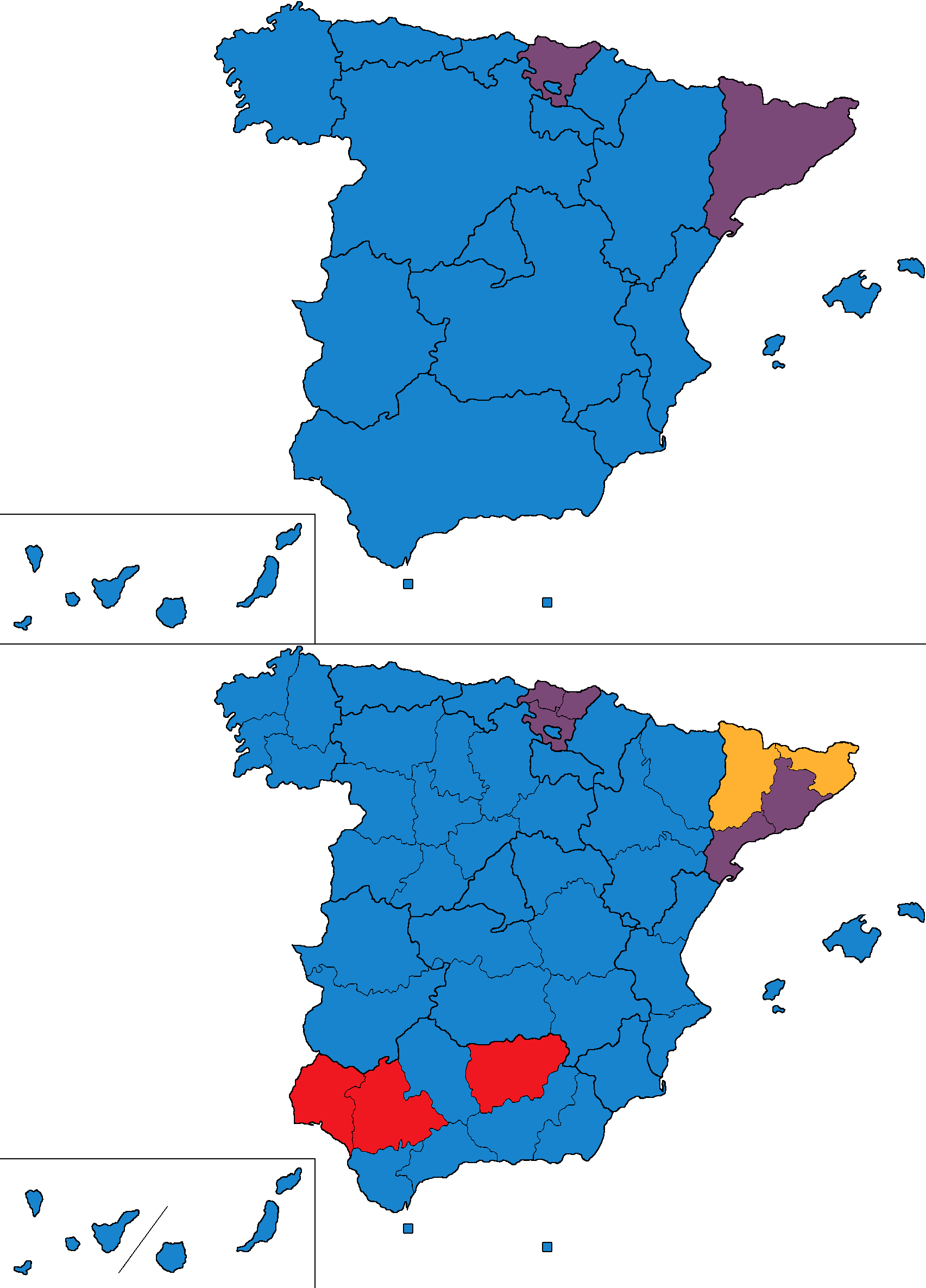 Most voted party in the 2016 Spanish Congress of Deputies election by autonomous communities and provinces.